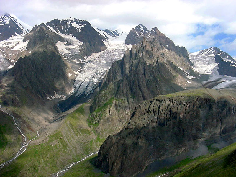 View on some mountains and rivervalleys in the Caucasus (in Georgia)